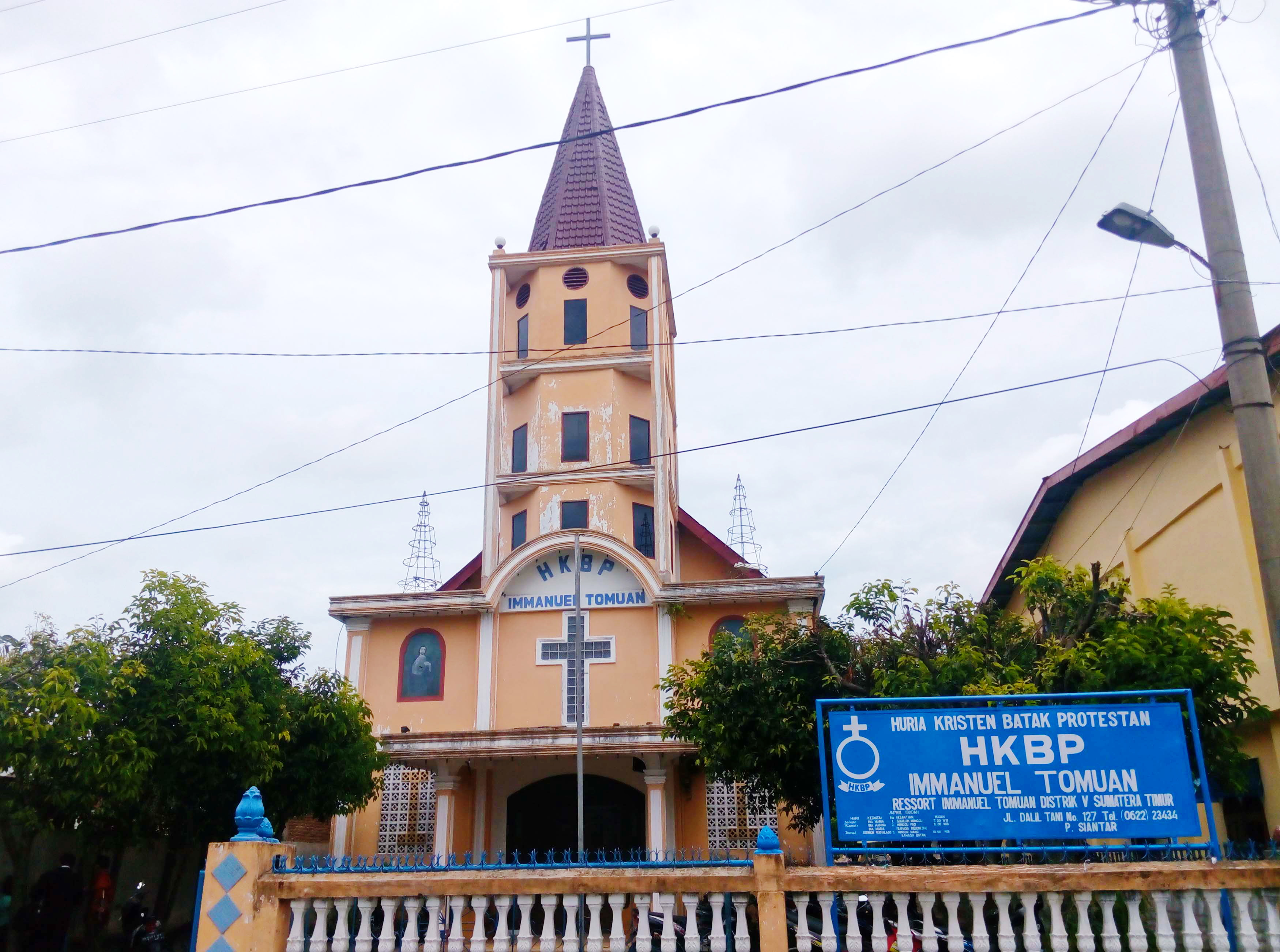 HKBP Immanuel Tomuan church in Tomuan, Pematangsiantar